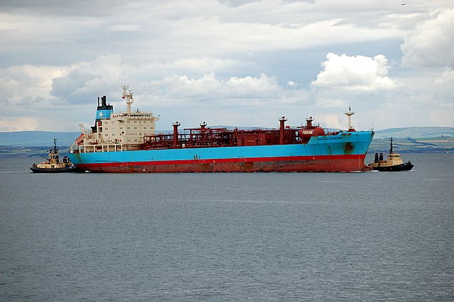 Tanker and tugs The gas tanker Maersk Houston, with tugs in attendance, makes its way to Braefoot Bay Terminal to take on a new cargo.